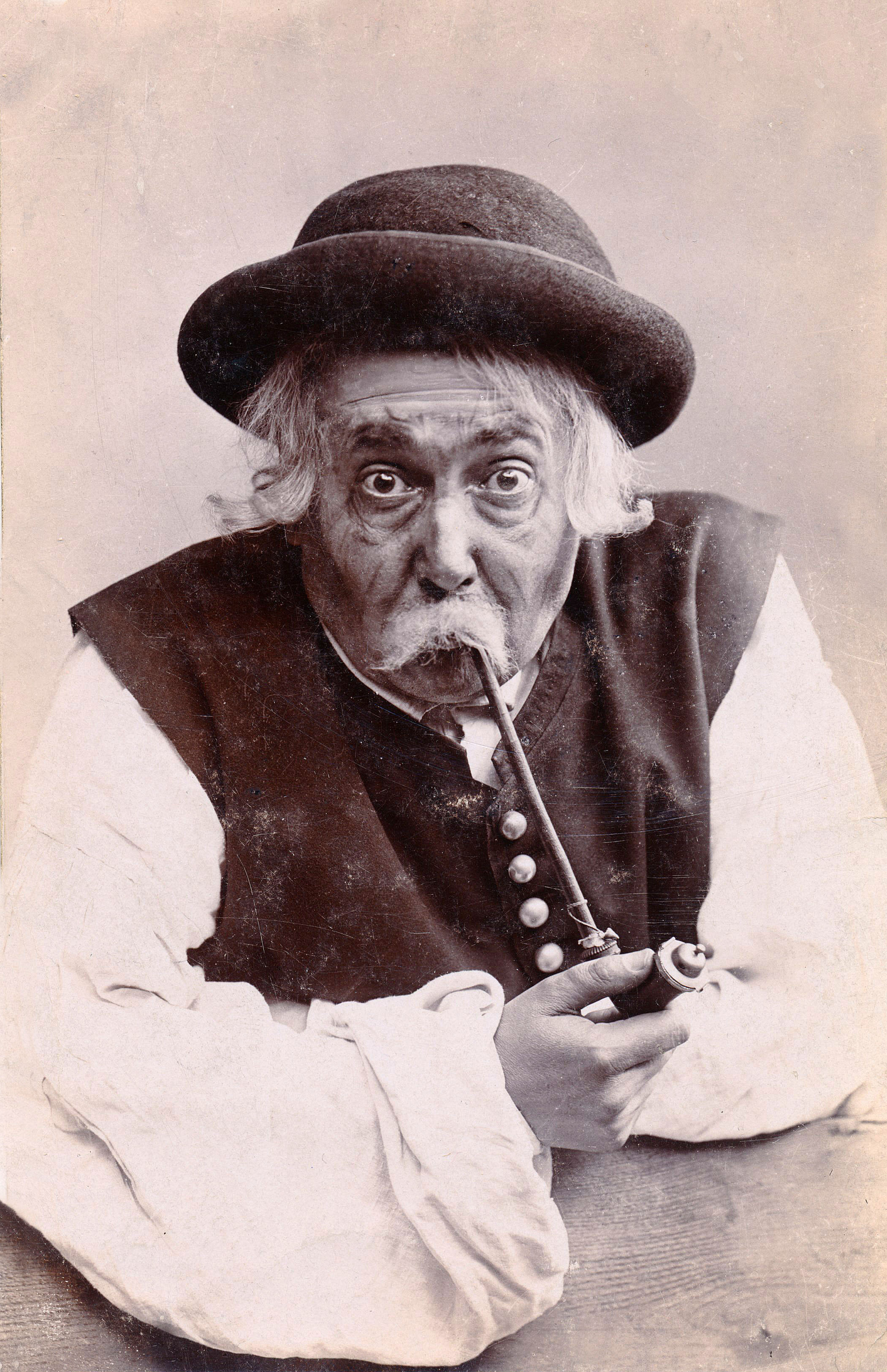 Árpád Gabányi (1855 - 1915) Hungarian actor Géza Gárdonyi. The wine. Country Story 3 acts / rolle Uncle Michael (National Theatre - Budapest) photo was taken: 1901. unknown photographer - unmarked